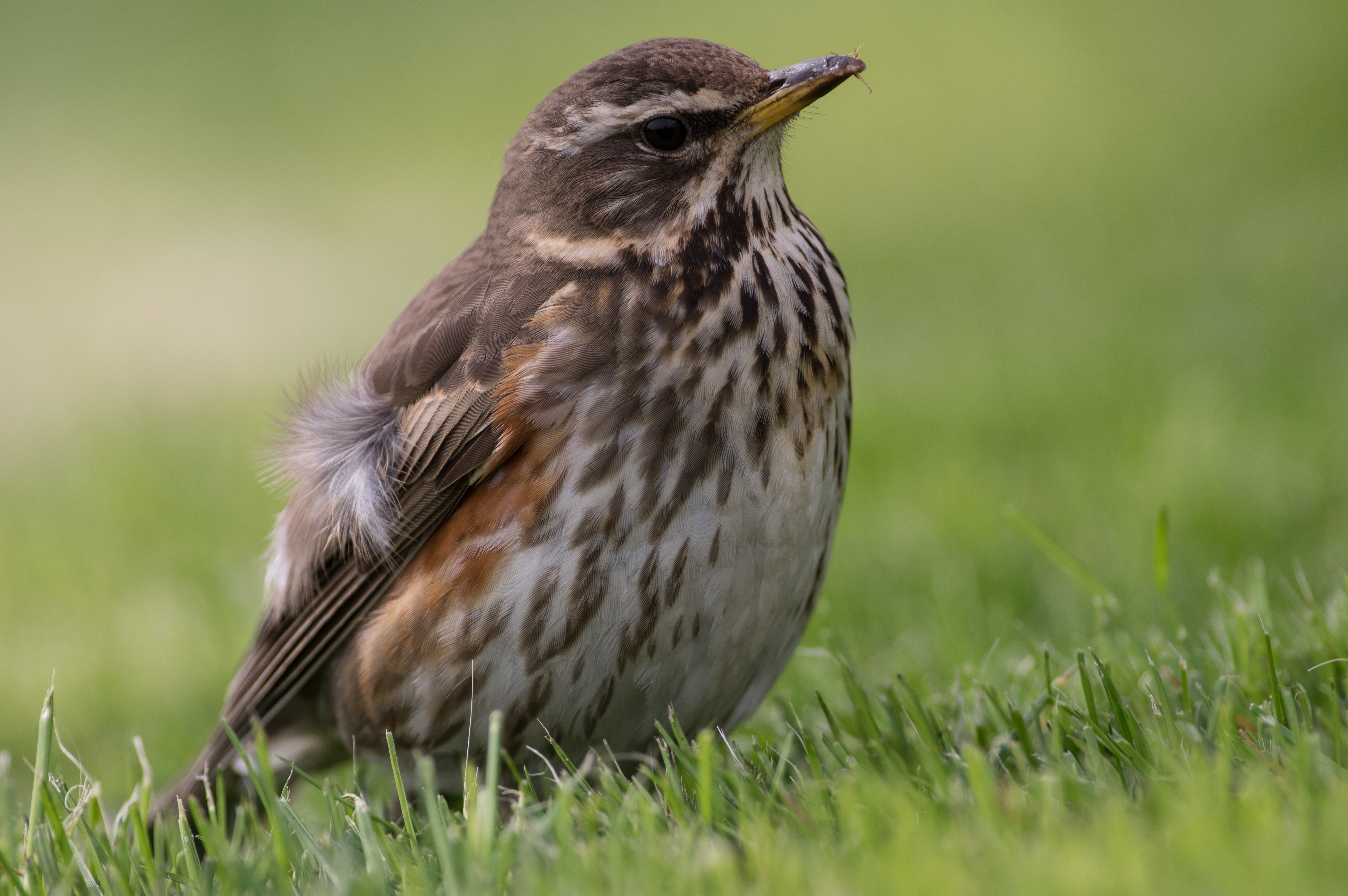 Redwing (Turdus iliacus), Heligoland, Germany